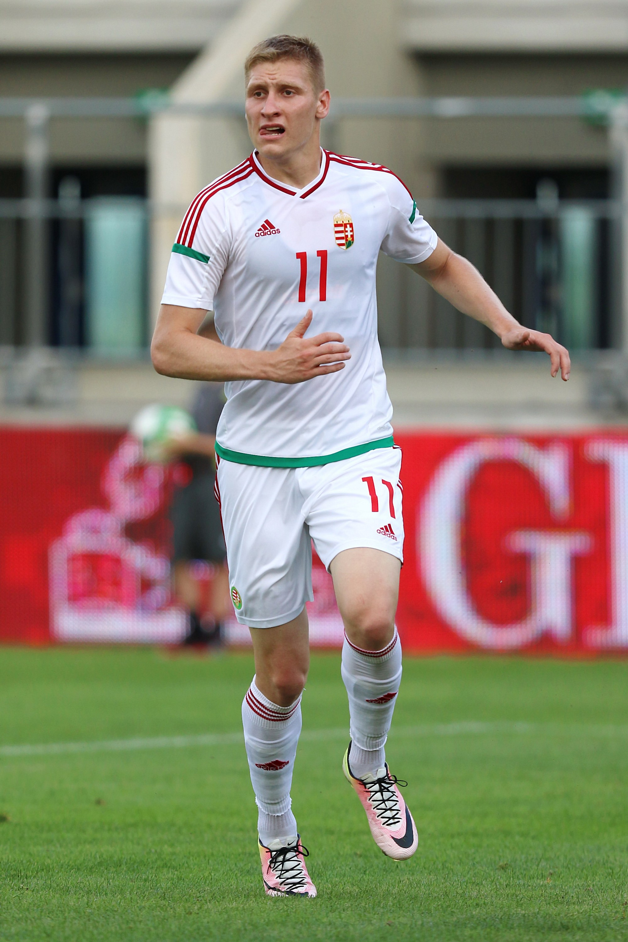 Friendly match: Austria U-21 (red shirts) vs. Hungary U-21 (white shirts) at 12. June 2017 in the Sonnenseestadion in Ritzing 2:1 (1:1) – The photo shows Csaba Spandler (Puskás Akadémia FC)